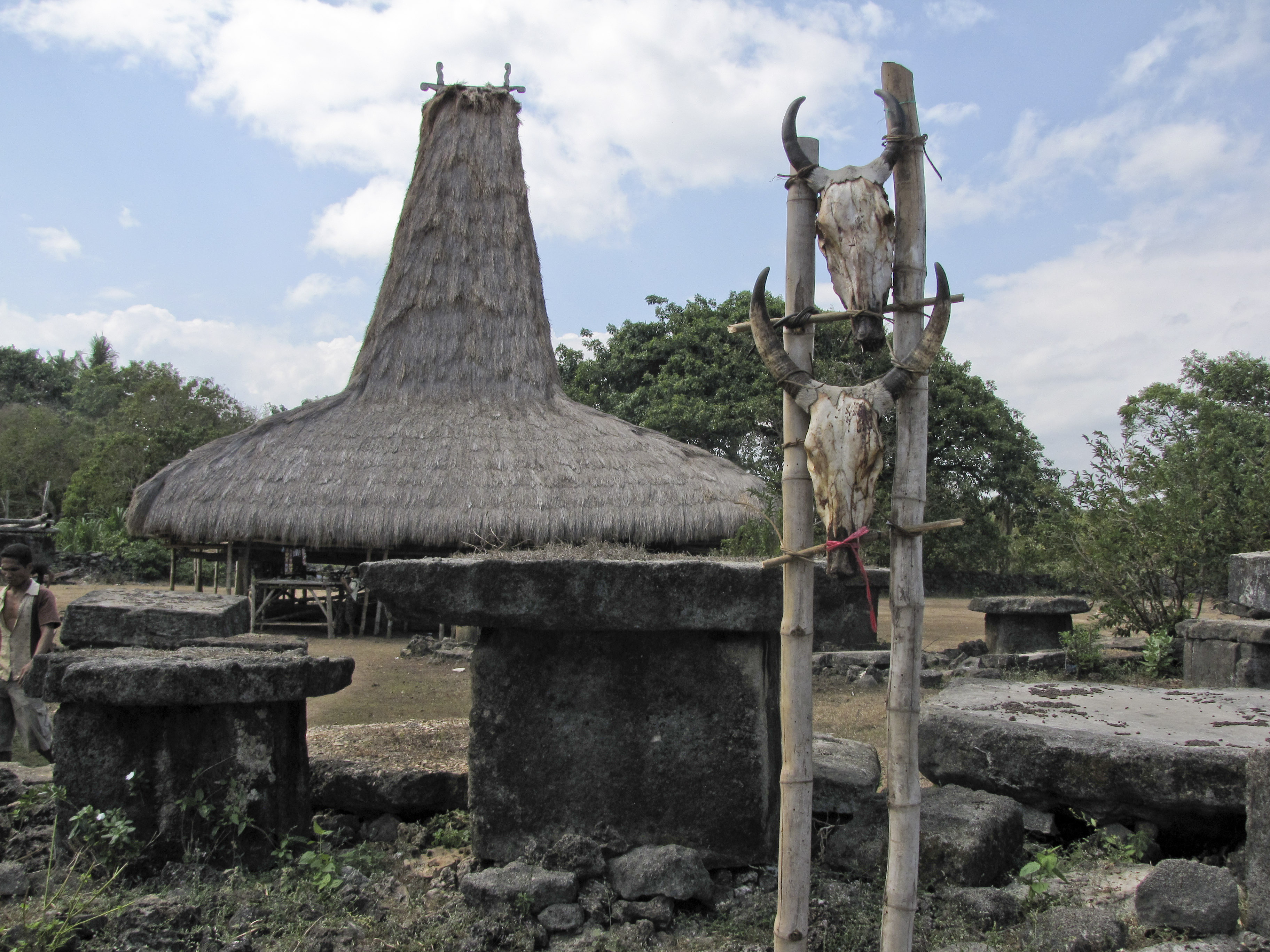 High-roofed house with buffalo skull display, Sumba